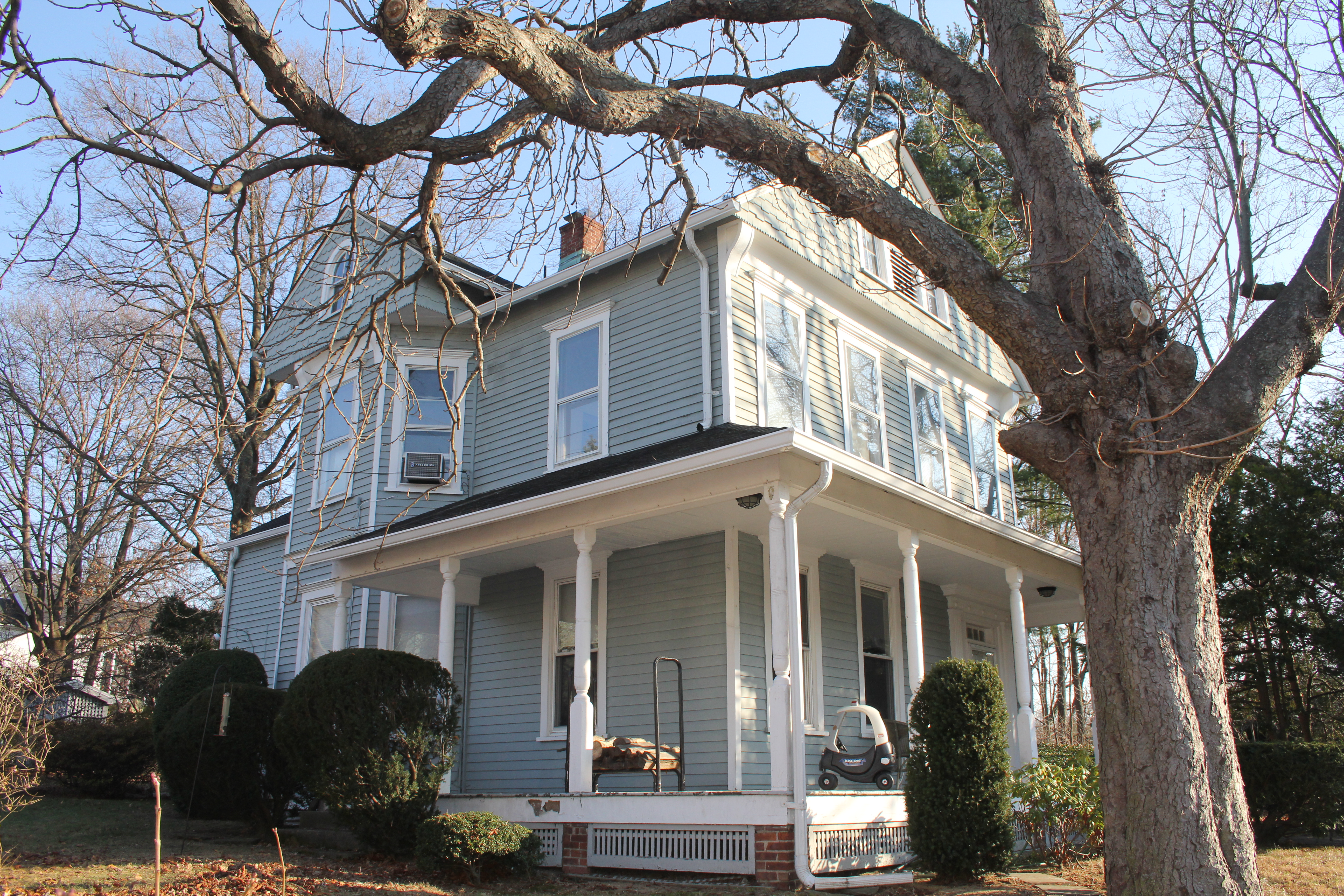 Zion Episcopal Church rectory in Douglaston, borough of Queens, New York City. Built in 1890 and a contributing building in the National Register of Historic Places' Douglaston Hill Historic District.